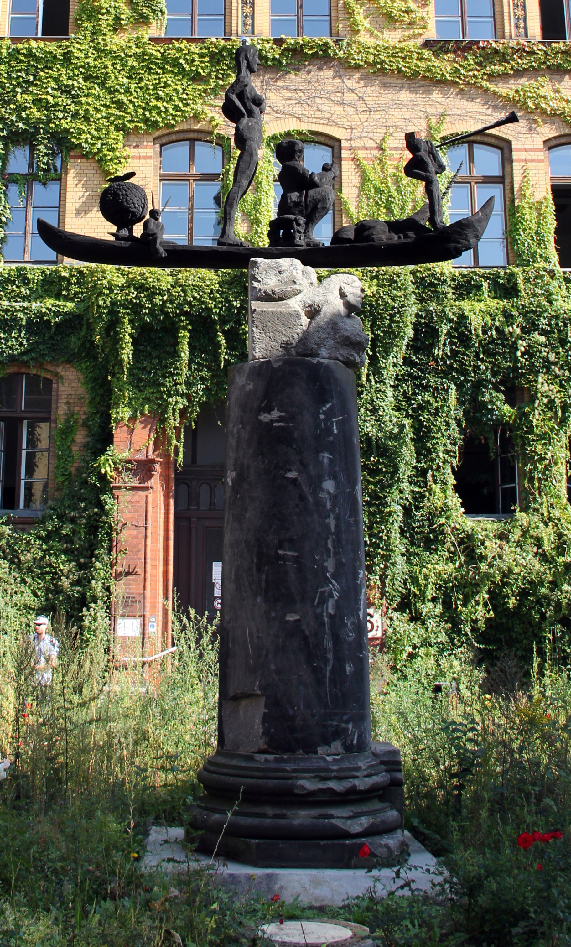 Sculpture, "Schiff zur Rettung der Unschuld der Kunst" by Thomas J. Richter, 1988-89, Prenzlauer Allee 75, Berlin-Prenzlauer Berg, Germany